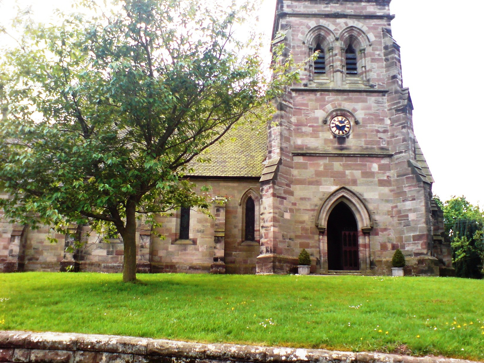 Nave and northwest tower of All Saints' parish church, Bednall, Staffordshire, seen from the north